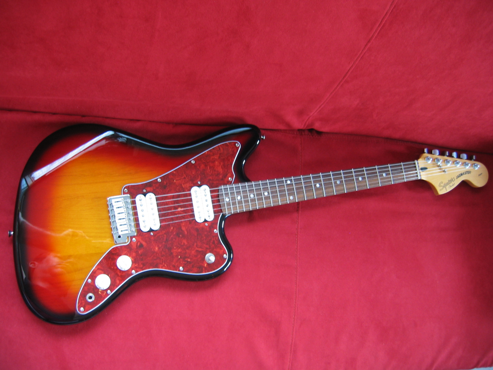 Two thousand six, twenty-four inch scale Squier Jagmaster.